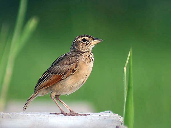 Bengal bushlark Mirafra assamica in Kolkata, West Bengal, India.